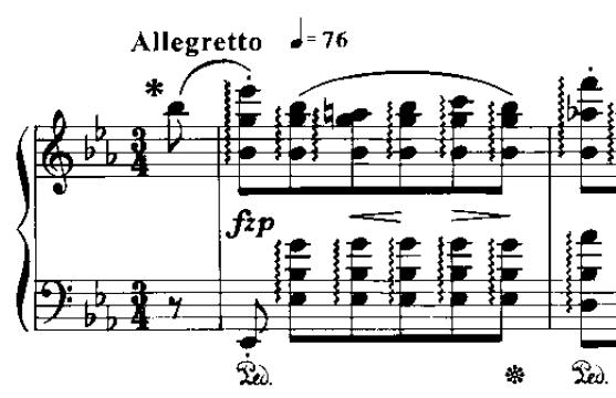 Excerpt form the beginning of the Étude Op. 10 No. 11 by Fryderyk Chopin.